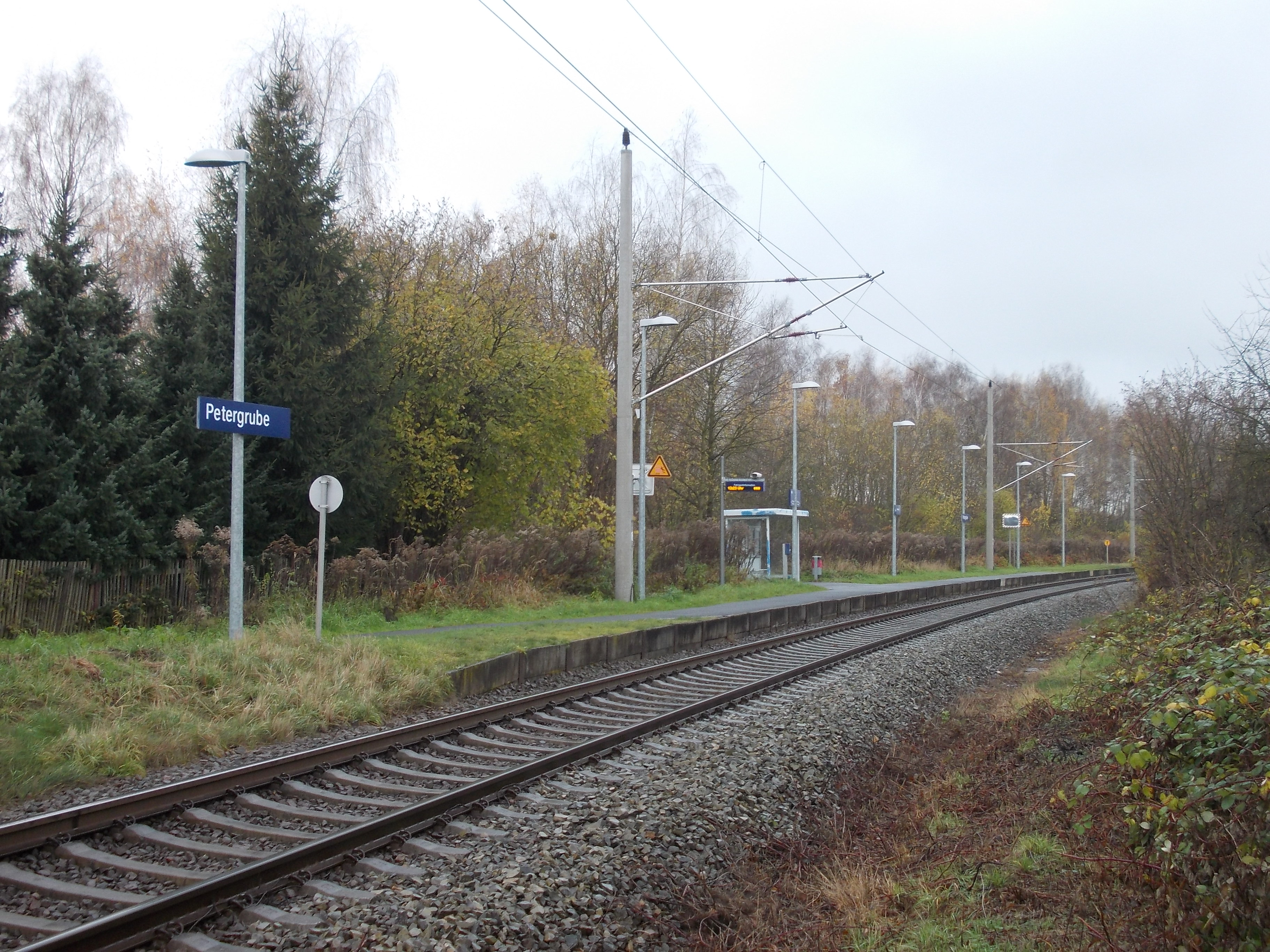 Petersgrube train station (Borna, Leipzig district, Saxony)